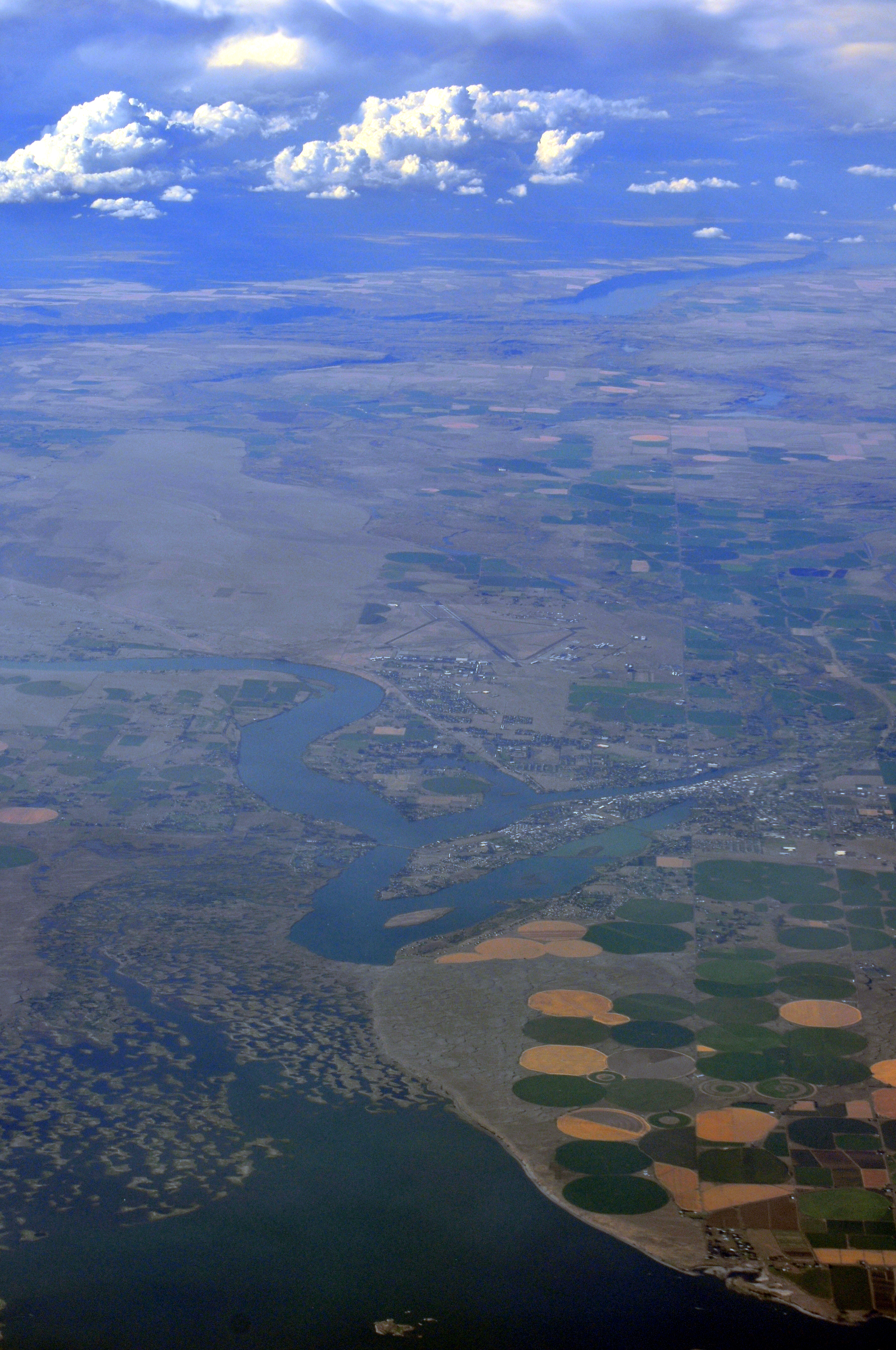 Aerial view of the city of Moses Lake, Washington and the lake of the same name, and Potholes Reservoir, Grant County, Washington, U.S.)